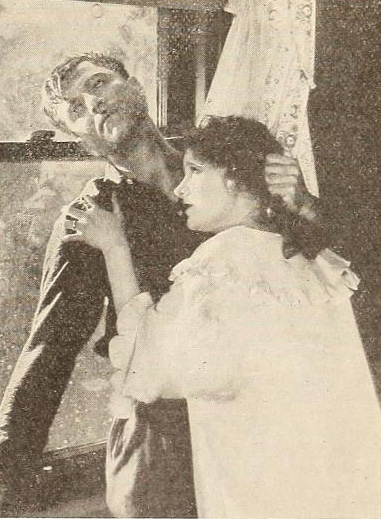 Bert Lytell and Alice Lake in a screen shot from 1919 film, "Blackie's Redemption"